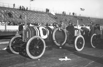 This shows Felice Nazzaro at the II American Grand Prize in Savannah, Georgia, November 12, 1910. The race was 17.3 miles * 24 laps = 415.2 miles. Nazarro achieved fastest lap 13m42 (75.7 mph).[1] The car is a Fiat Tipo S61 Corsa (built 1908-1910), 115 HP engine.[2] Cylinder bore was 130x190 mm = 616 ci/10091 ccm/10-litre. It was built for the 1909 French GP. It had wheelbase 275 cm, chain drive, tires 871x105 front / 880x120 rear.[3] Photo by Nathan Lazarnick (American, b. Russia, 1879-1955).[4] Title: Fiat (Felice Nazzaro "#10", Savannah, Ga 1910)